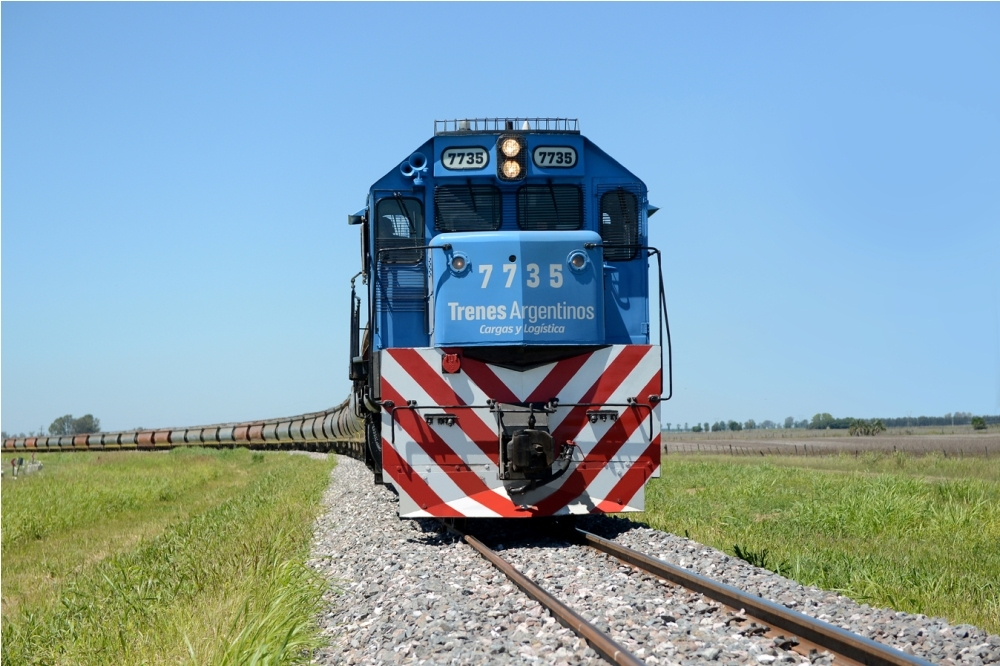 Freight train of State-owned company "Trenes Argentinos Cargas y Logística", with a EMD G22 locomotive at front.